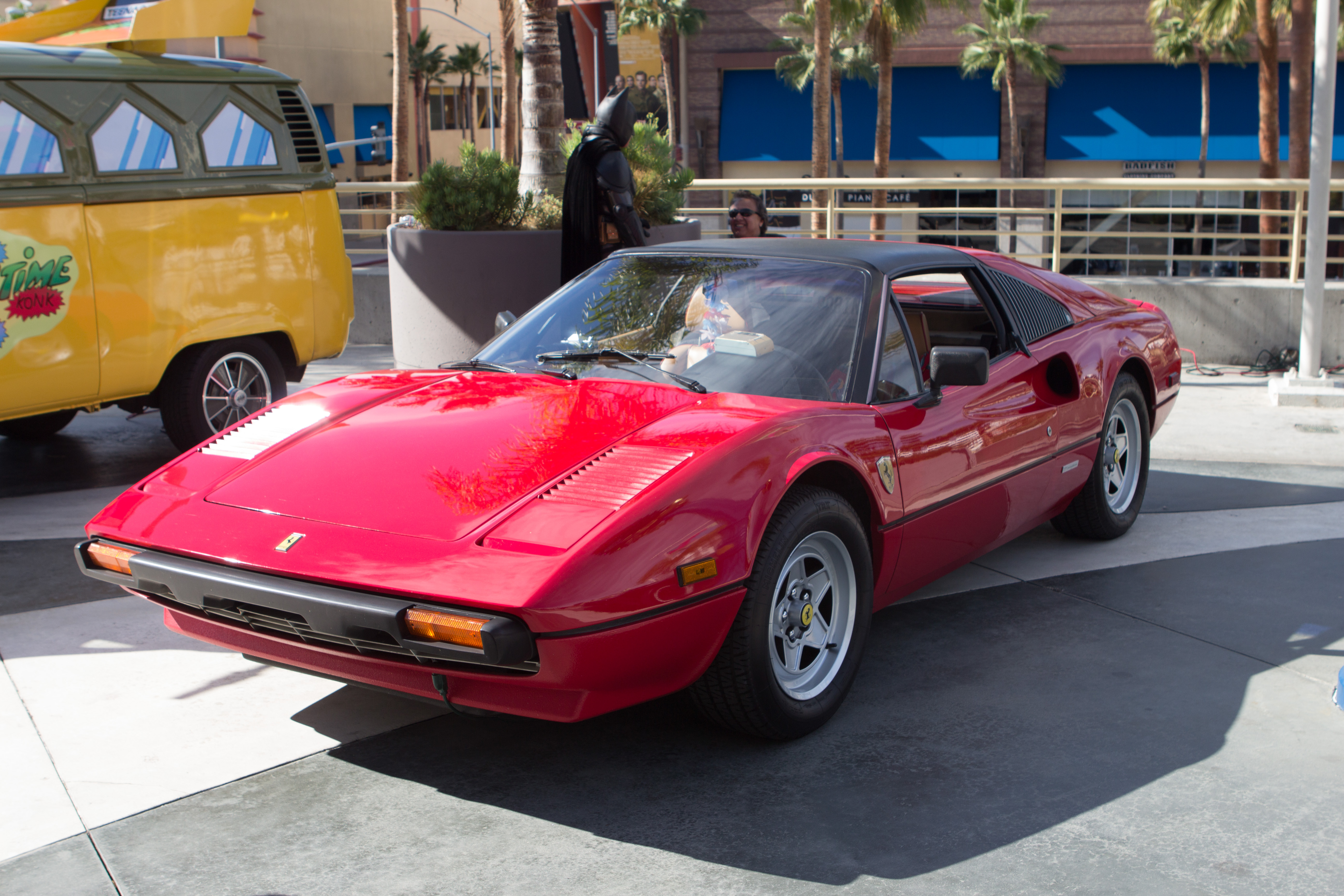 Star Car Central display at Long Beach Comic Con 2013.